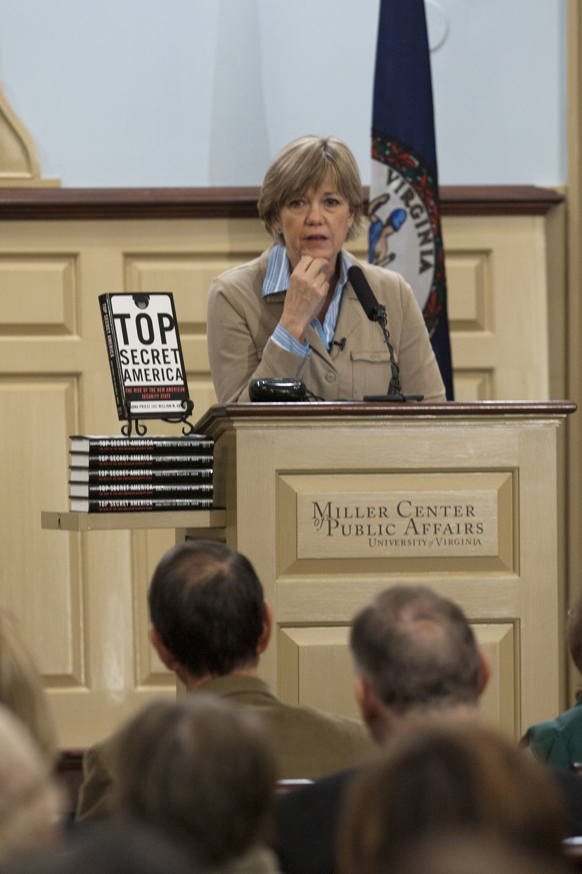 DANA PRIEST talks about her book, "Top Secret America" which "Describes the enormous, top-secret, invisible universe created by the government after 9/11 and describes why the system in place to keep us safe may actually be putting us in greater danger." (Review from NPR) Held December 2, 2011. Miller Center, Charlottesville, VA. For more information, visit .